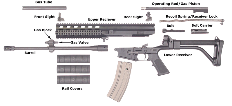 SCAR Trials Photo USSOCOM